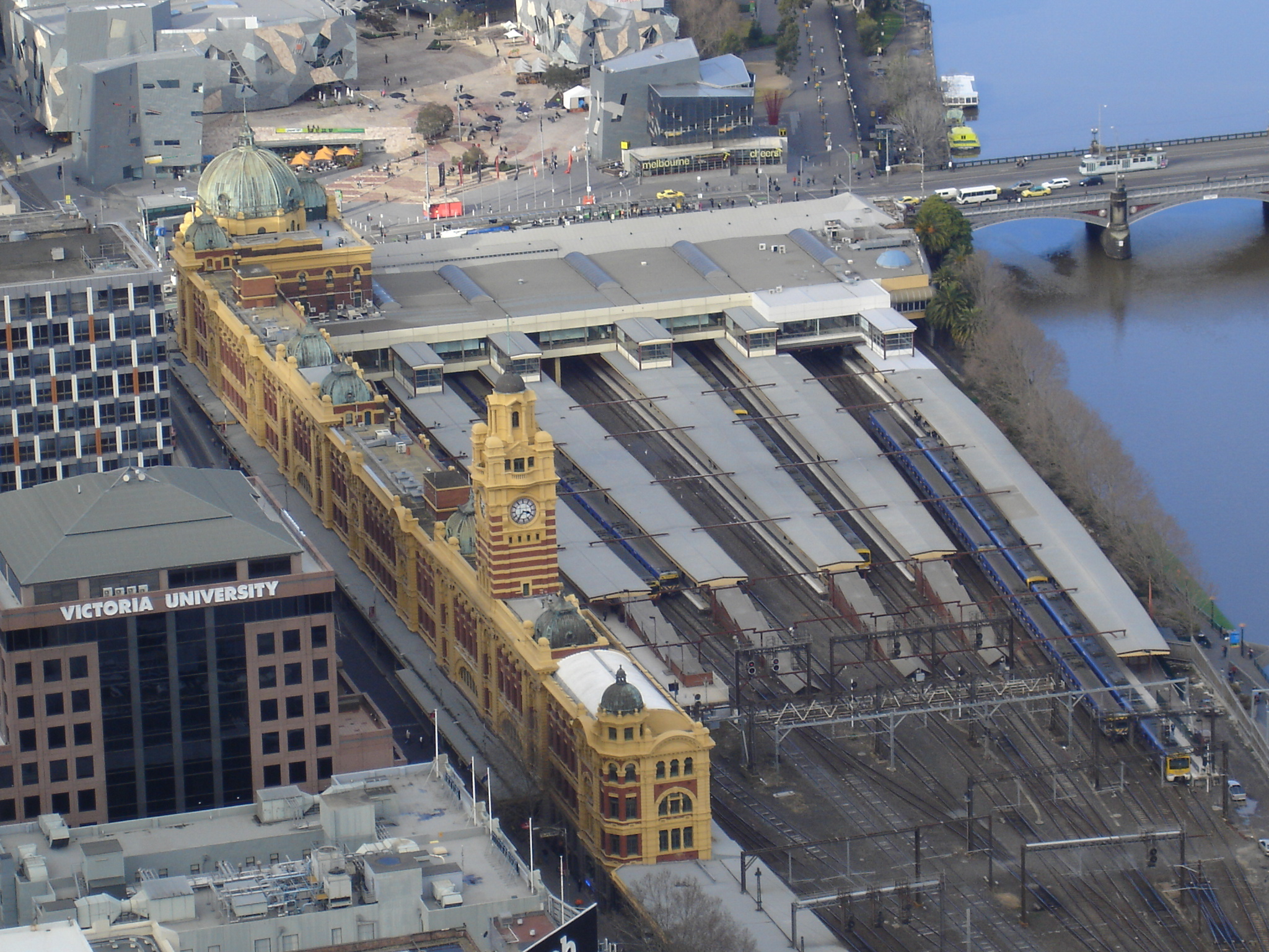 Flinders Street Station in Melbourne, as seen from the observation deck on Rialto Tower.